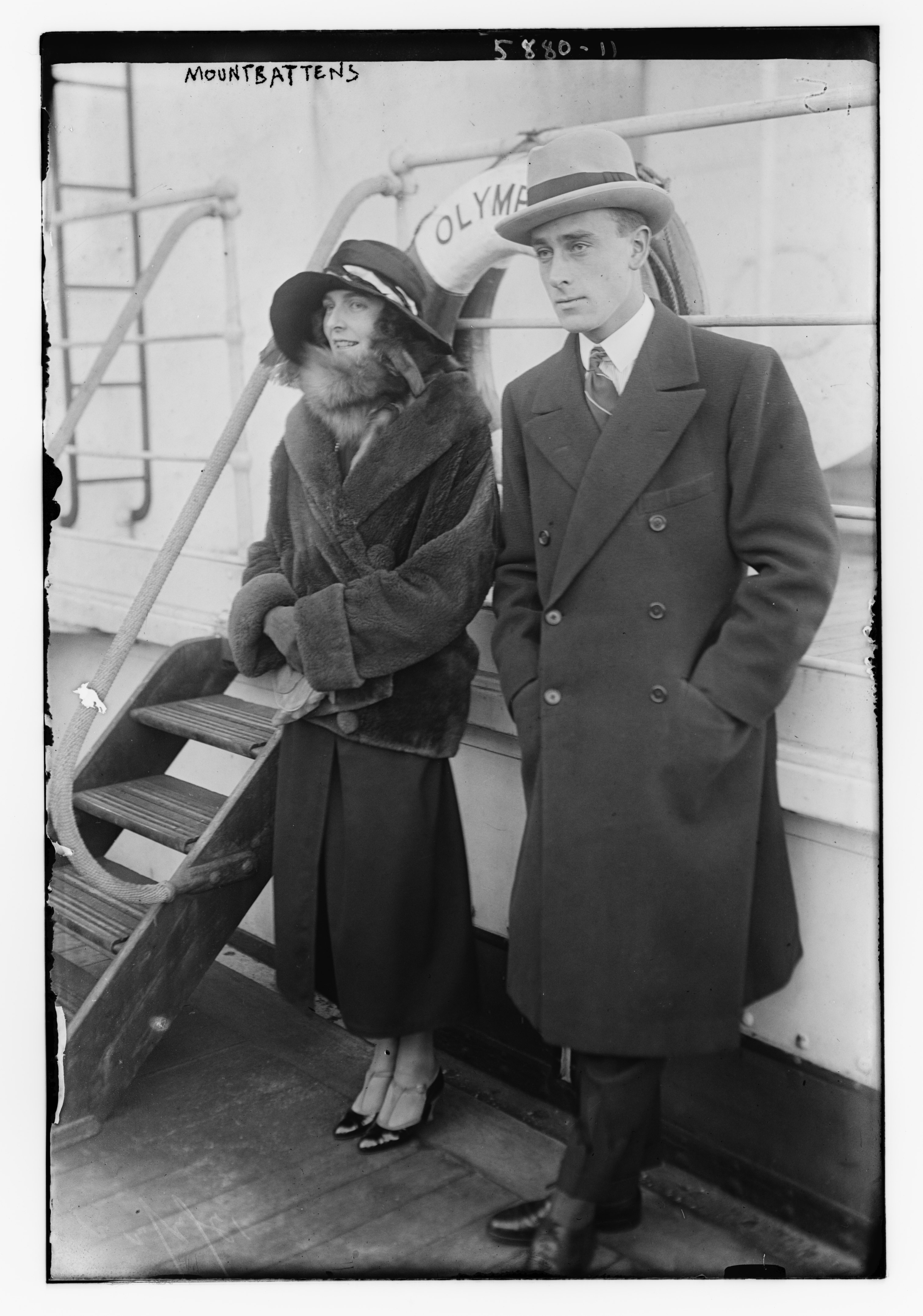 Title: Mountbattens Abstract/medium: 1 negative : glass ; 5 x 7 in. or smaller.